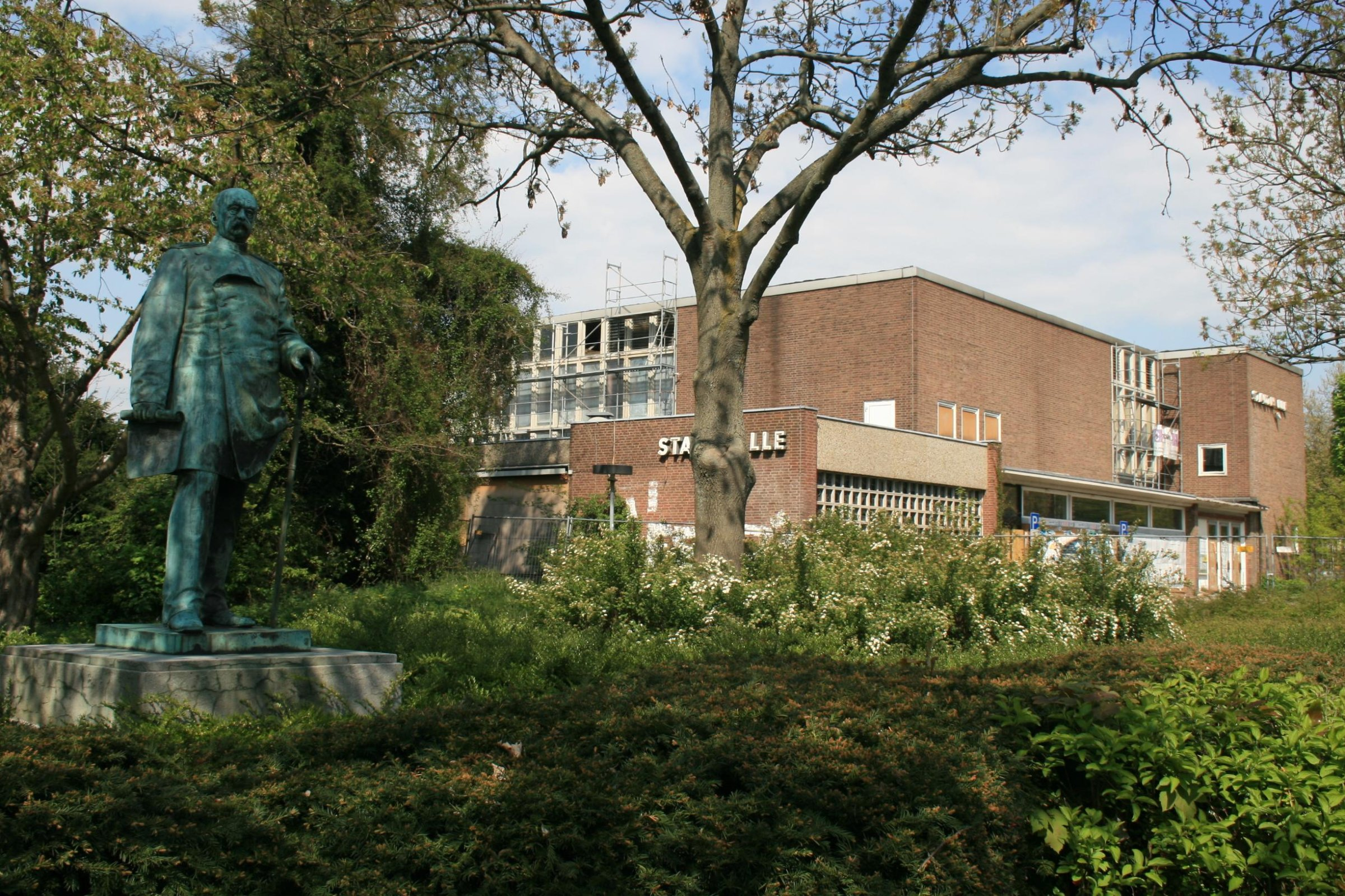 Cultural heritage monument No. 1/113 in Düren